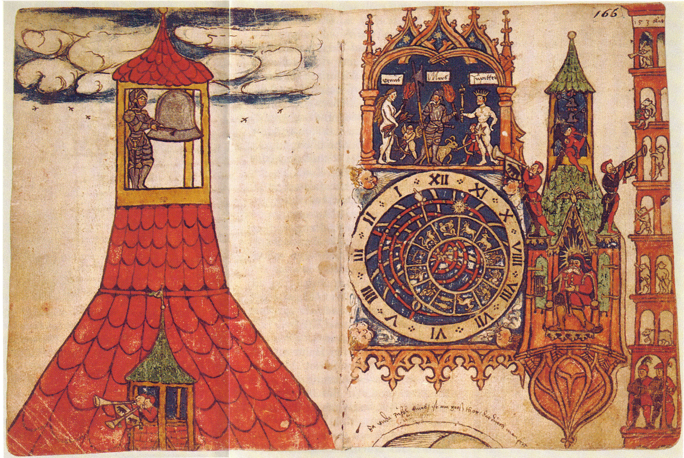 Details of the Zytglogge tower in Bern, Switzerland.